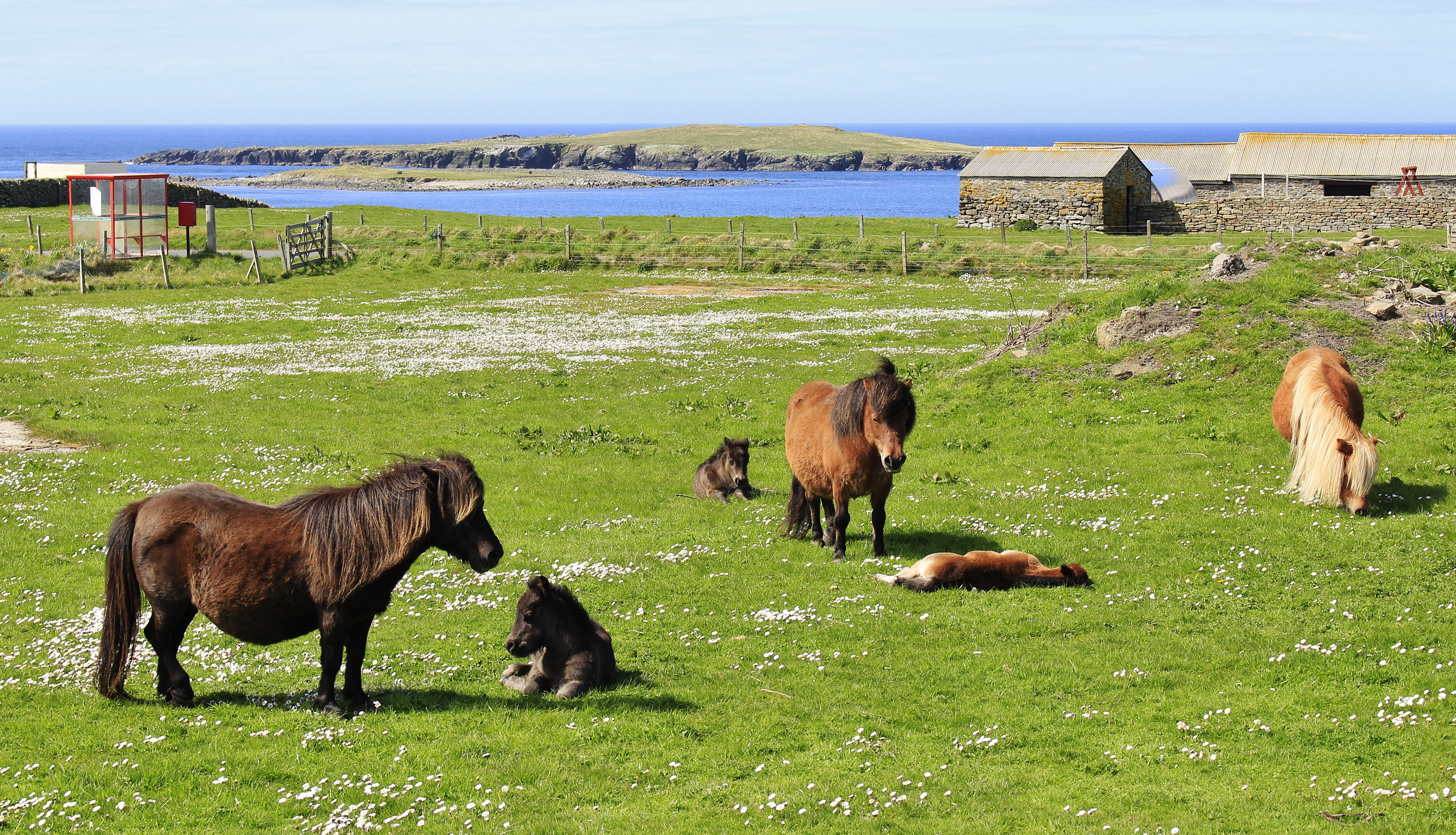 ... in the morning sun !